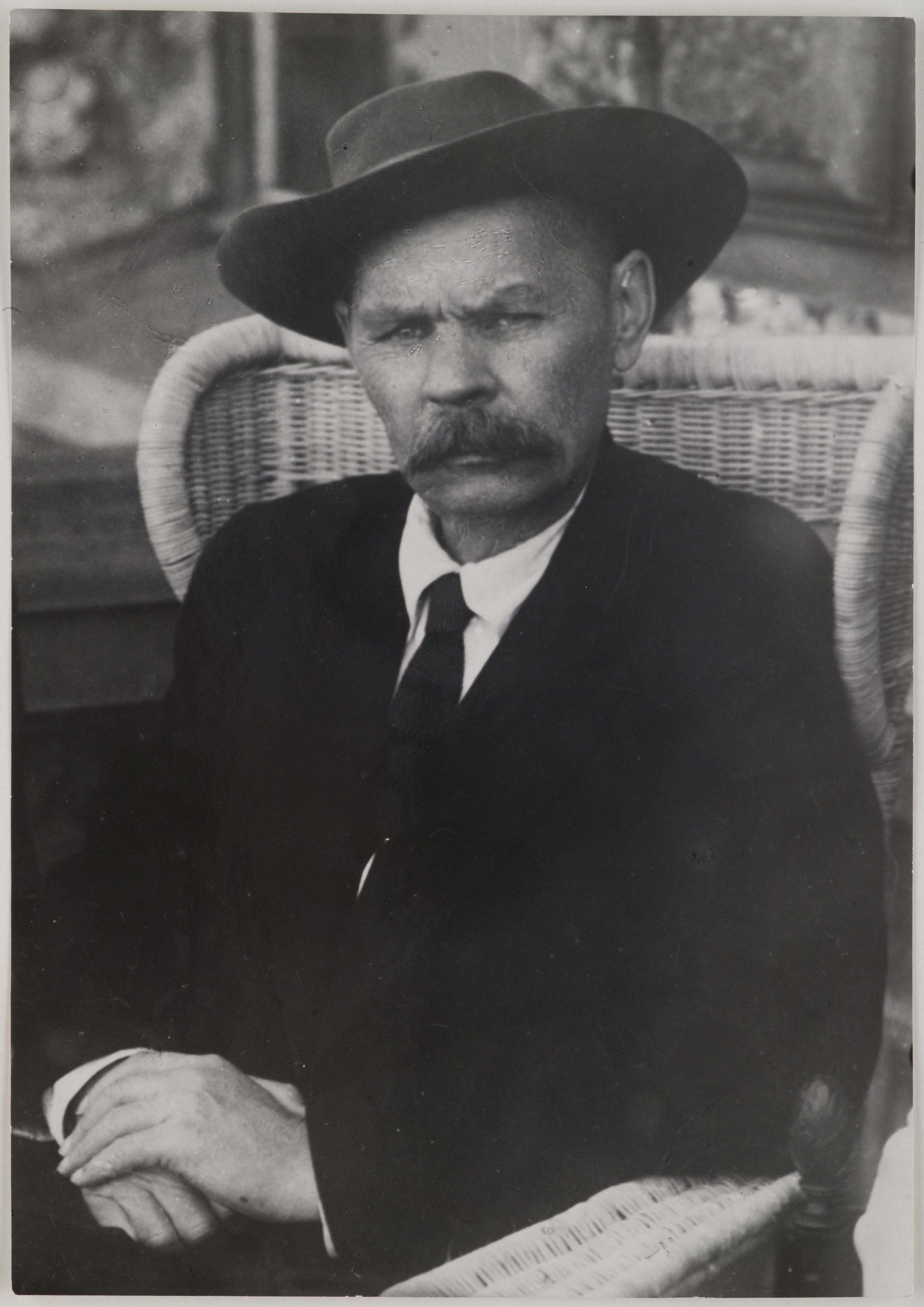 Maksim Gorkin muotokuva. Gorkin museo lähetti kuvan Kirsti Gallen-Kallelalle 1956. kuvauspaikka: ajoitus: kuvaaja: kuva-alan mitat: 237x166mm tekniikka: merkintöjä: inventointinumero: GKM_VV_1324 kokoelma: Akseli Gallen-Kallelan valokuvakokoelma tutki lisää / explore further: Tiedätkö lisää tästä kuvasta? Kerro meille! Do you have information on this photo? Let us know!